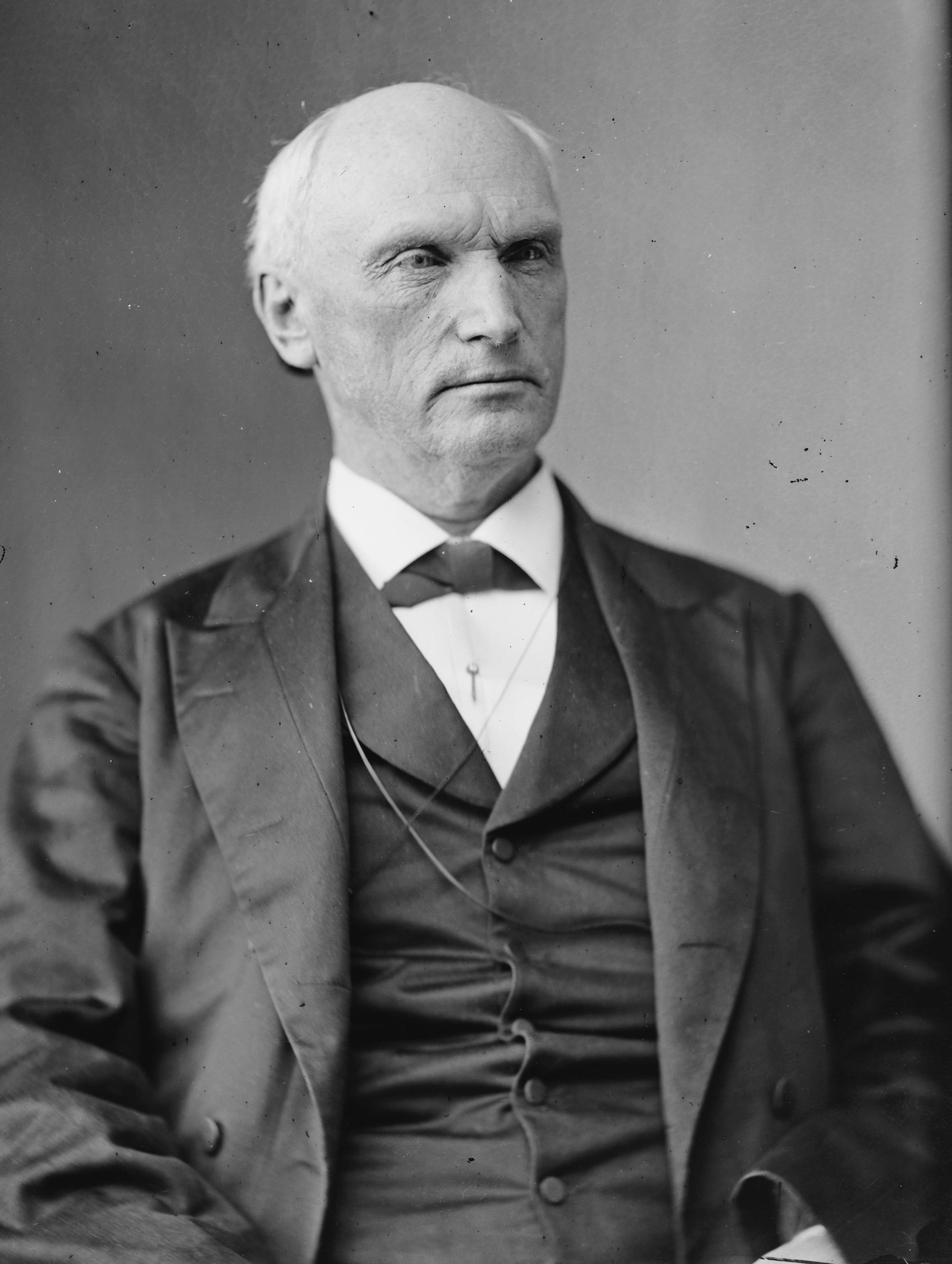 Walter Leak Steele. Library of Congress description: "Steele, Hon. Walter Leak of N.C. Delegate to the Democratic National Convention at Charleston and Baltimore in 1860".